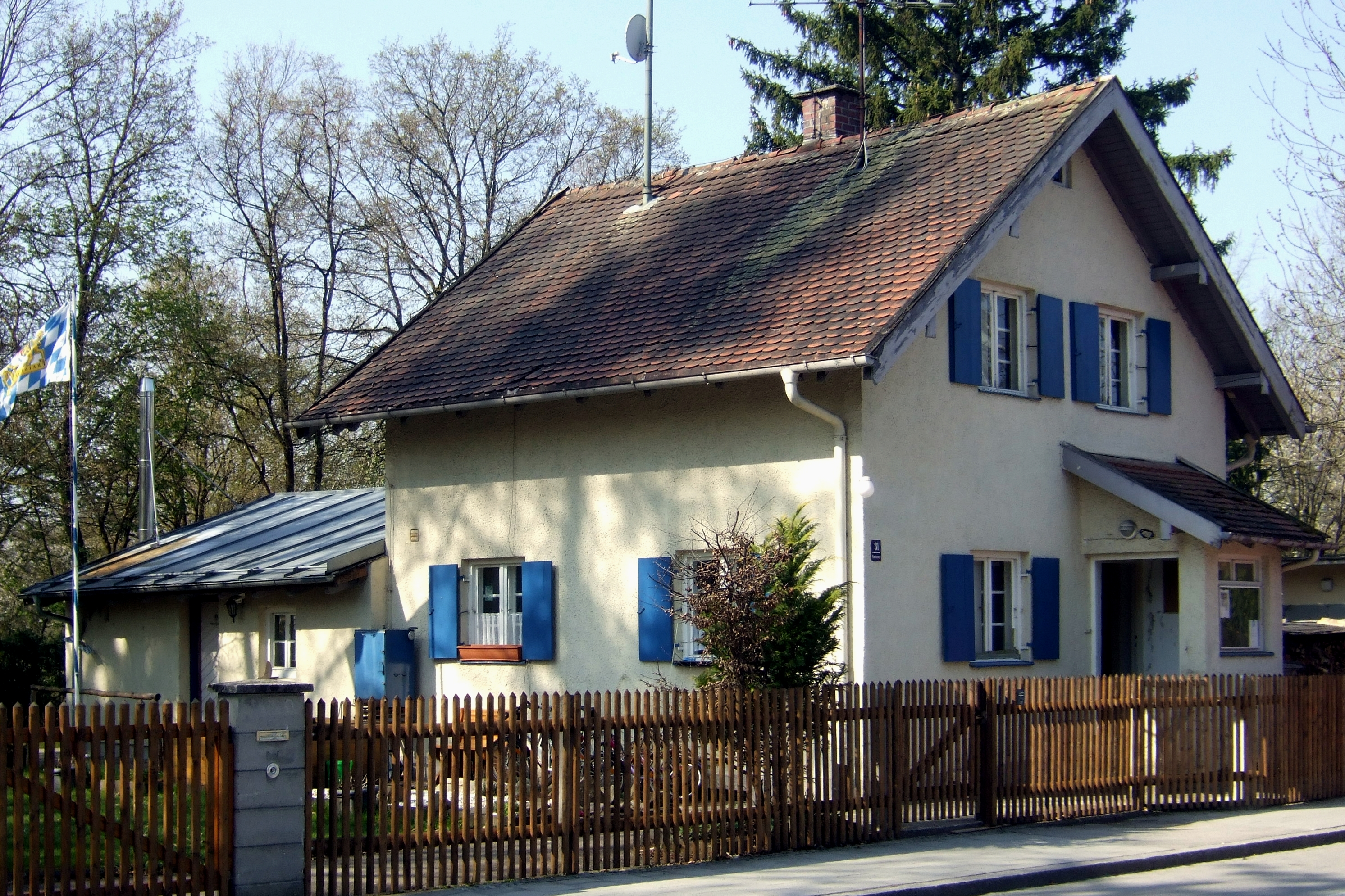 Ottobrunn (31 Ranhazweg): Formerly second waterworks (erected 1936, modernized 1963).